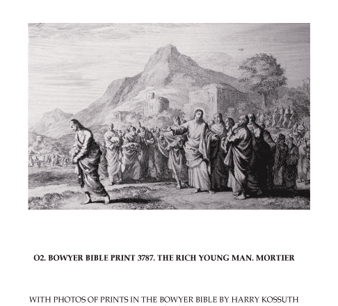 The rich young man. Mortier. In the Bowyer Bible in Bolton Museum, England. Print 3787. From “An Illustrated Commentary on the Gospel of Mark” by Phillip Medhurst. Section O. entry to the Kingdom. Mark 9:33-37, 10:13-25, 28-31, 12:28-34.